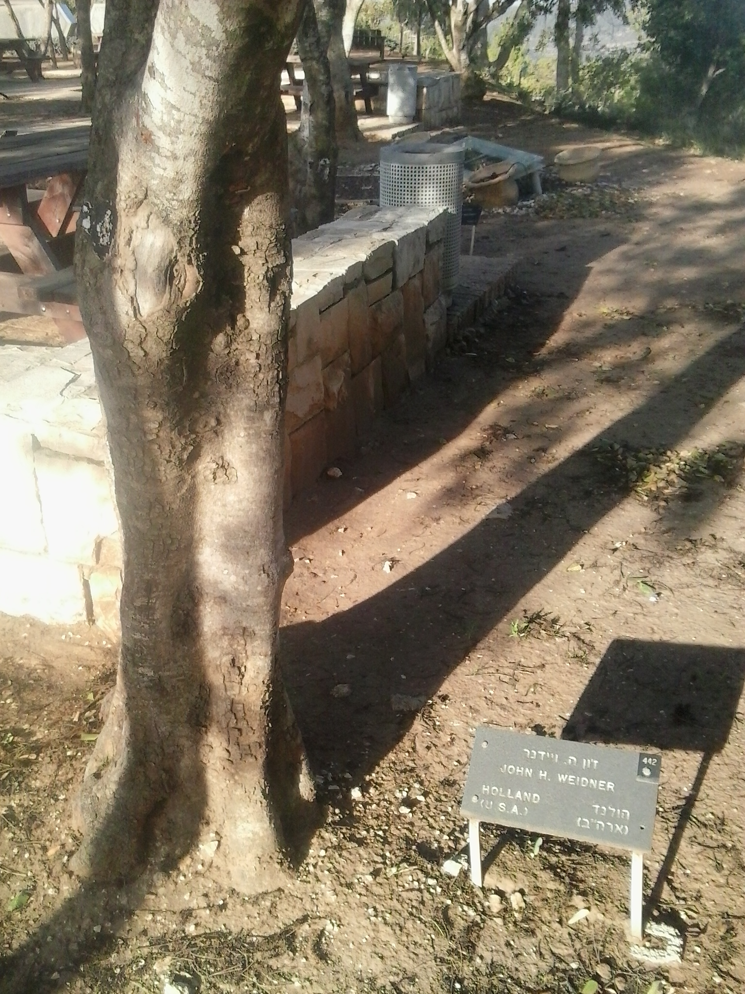 The Tree planted at Yad Vashem honoring the Righteous Among the Nations Johan Hendrik Weidner